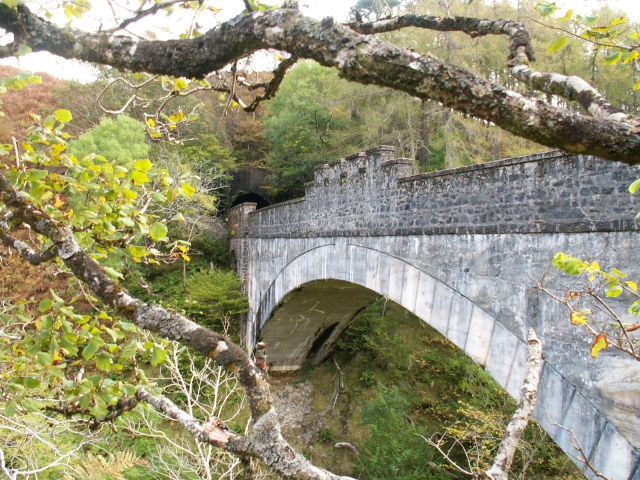 Borrodale viaduct. When built this was the longest unreinforced concrete span in the world and the finest example of Concrete Bob’s work. Not only is it a massive span but it curves around at fair angle over a very deep gorge. As nobody seems to build in unreinforced concrete these days I assume it still is the longest single span in this material. It carried its first fare paying passengers on the 1st of April 1901. Not bad for an ex brickie. Sir Robert MacAlpine 1847 – 1934.